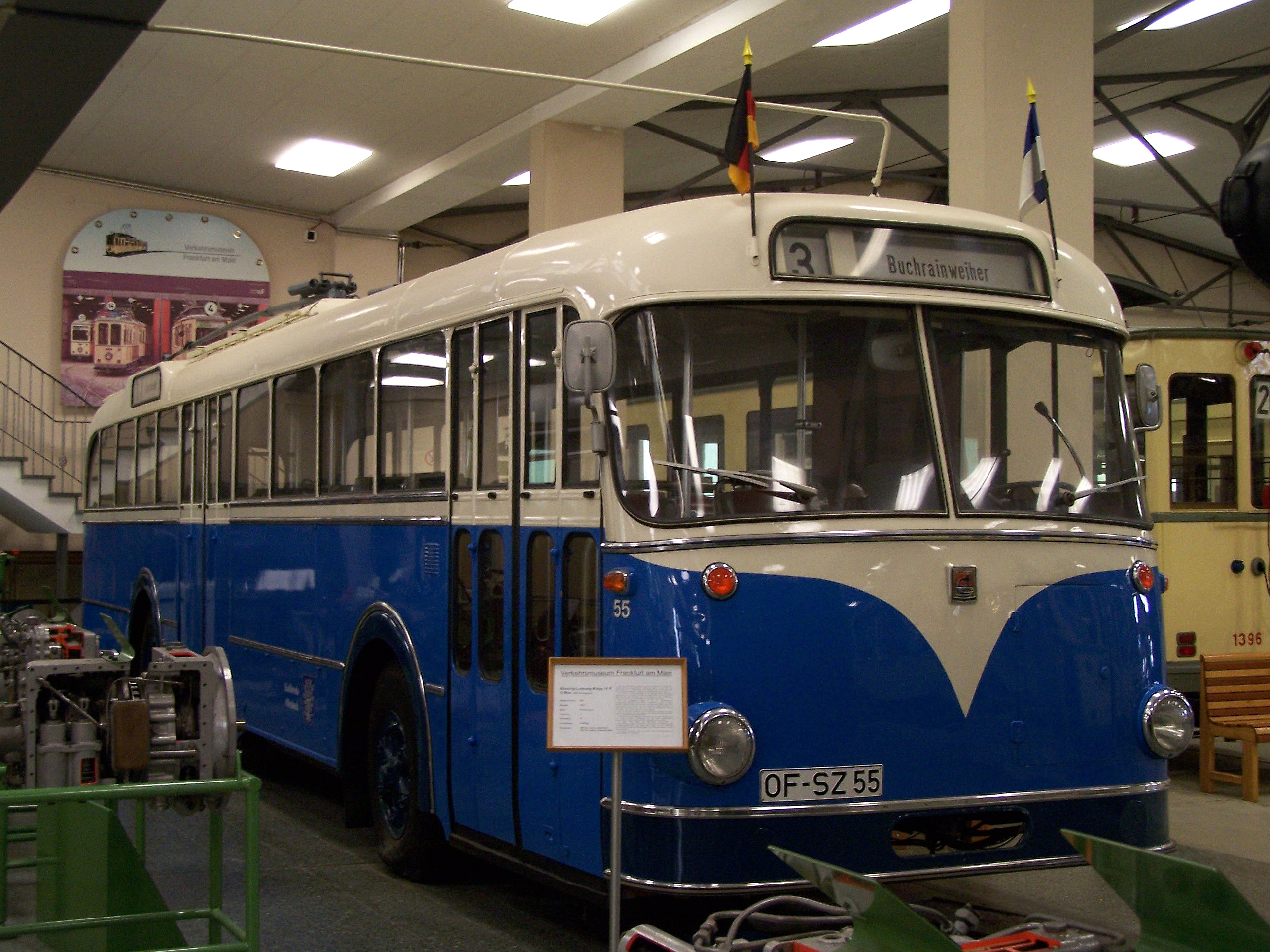 trolley bus of the Stadtwerke Offenbach in the Frankfurt on Main Transport Museum in Frankfurt am Main--Schwanheim